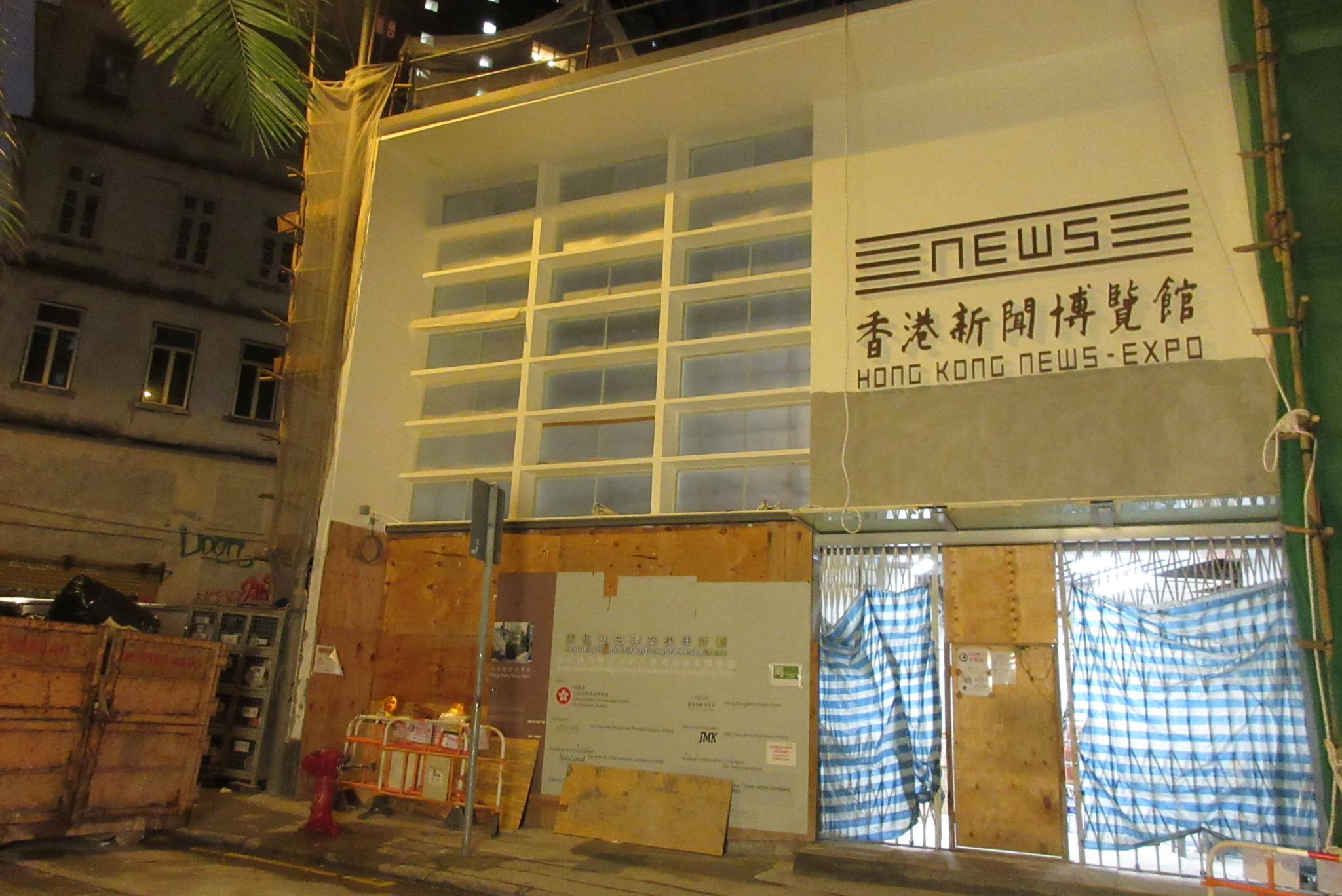 HK 上環 Sheung Wan 香港新聞博覽館 Hong Kong News-Expo 必列啫士街街市 Ex-Bridges Street Market night January 2017